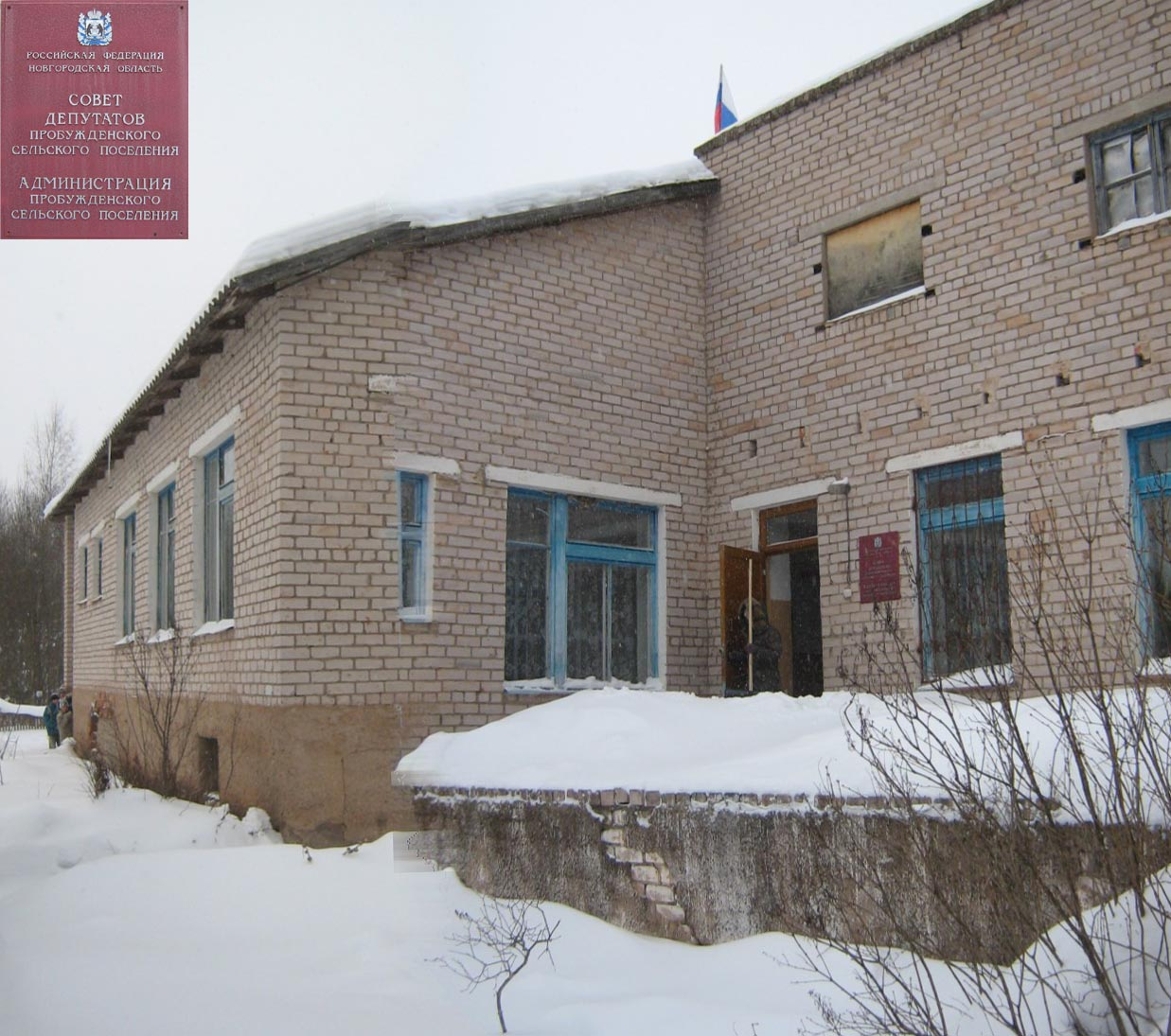 Деревня Пробуждение Старорусского района Новгородской области